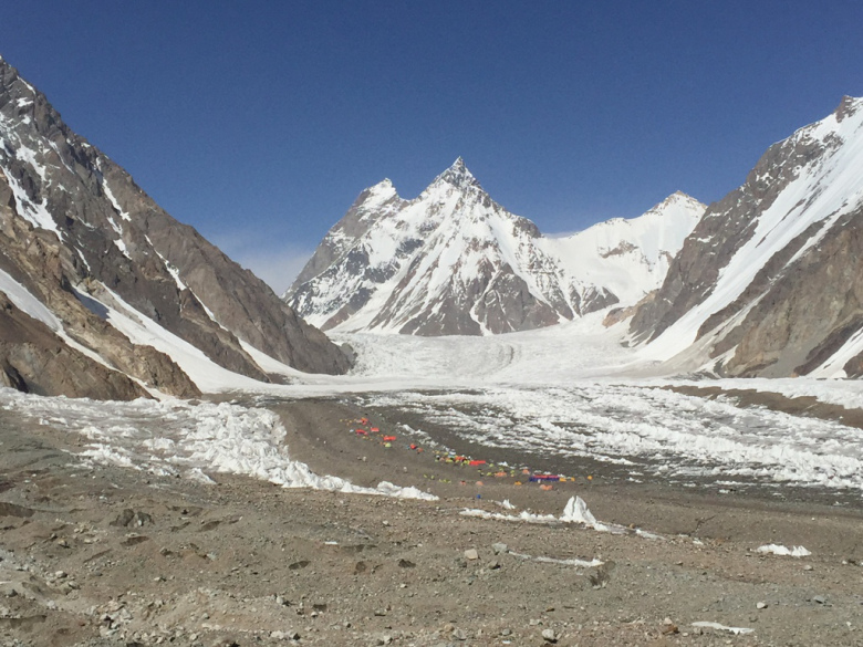 K - 2 at Day Time